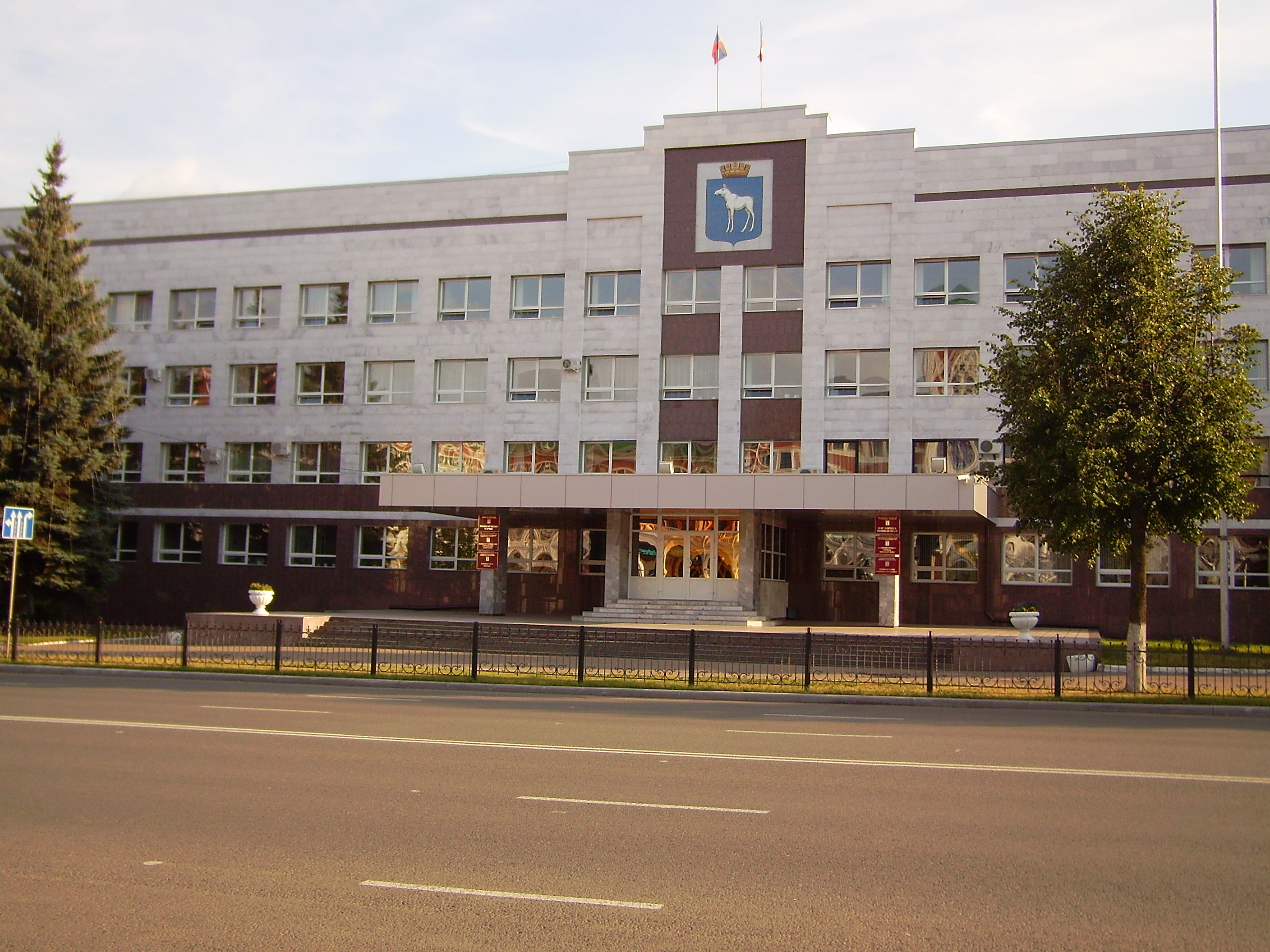 Building of a city administration of Yoshkar-Ola